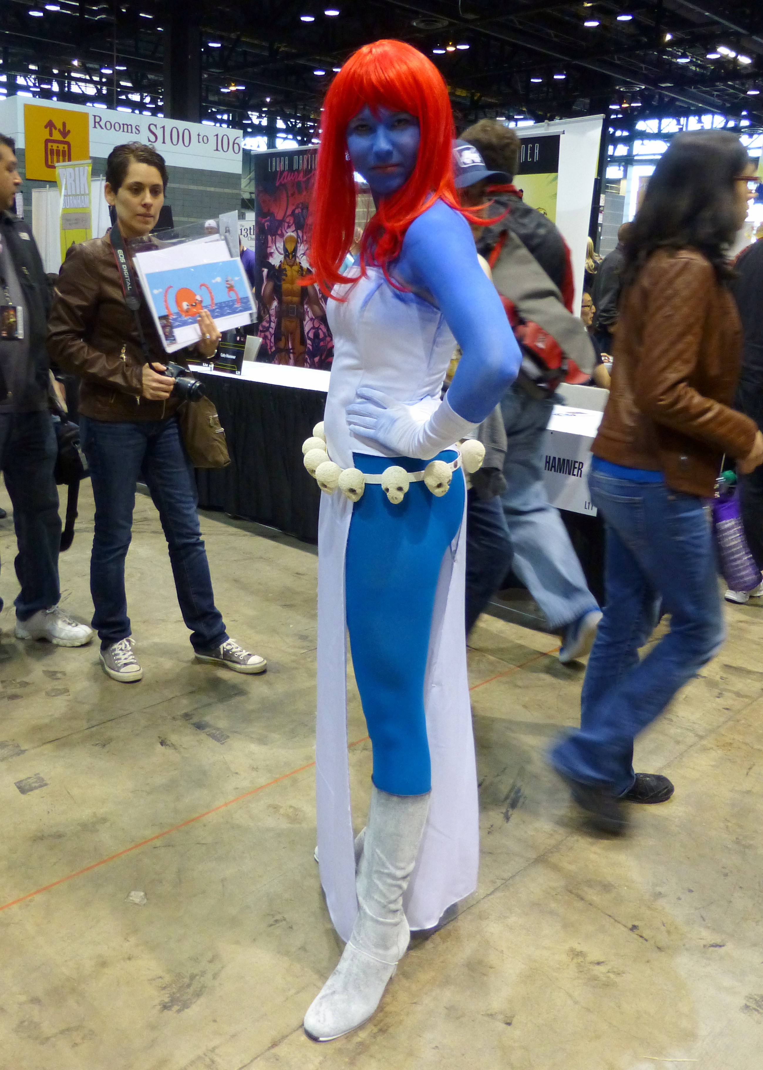 Mystique Cosplay at Chicago Comic & Entertainment Expo (C2E2) 2014.